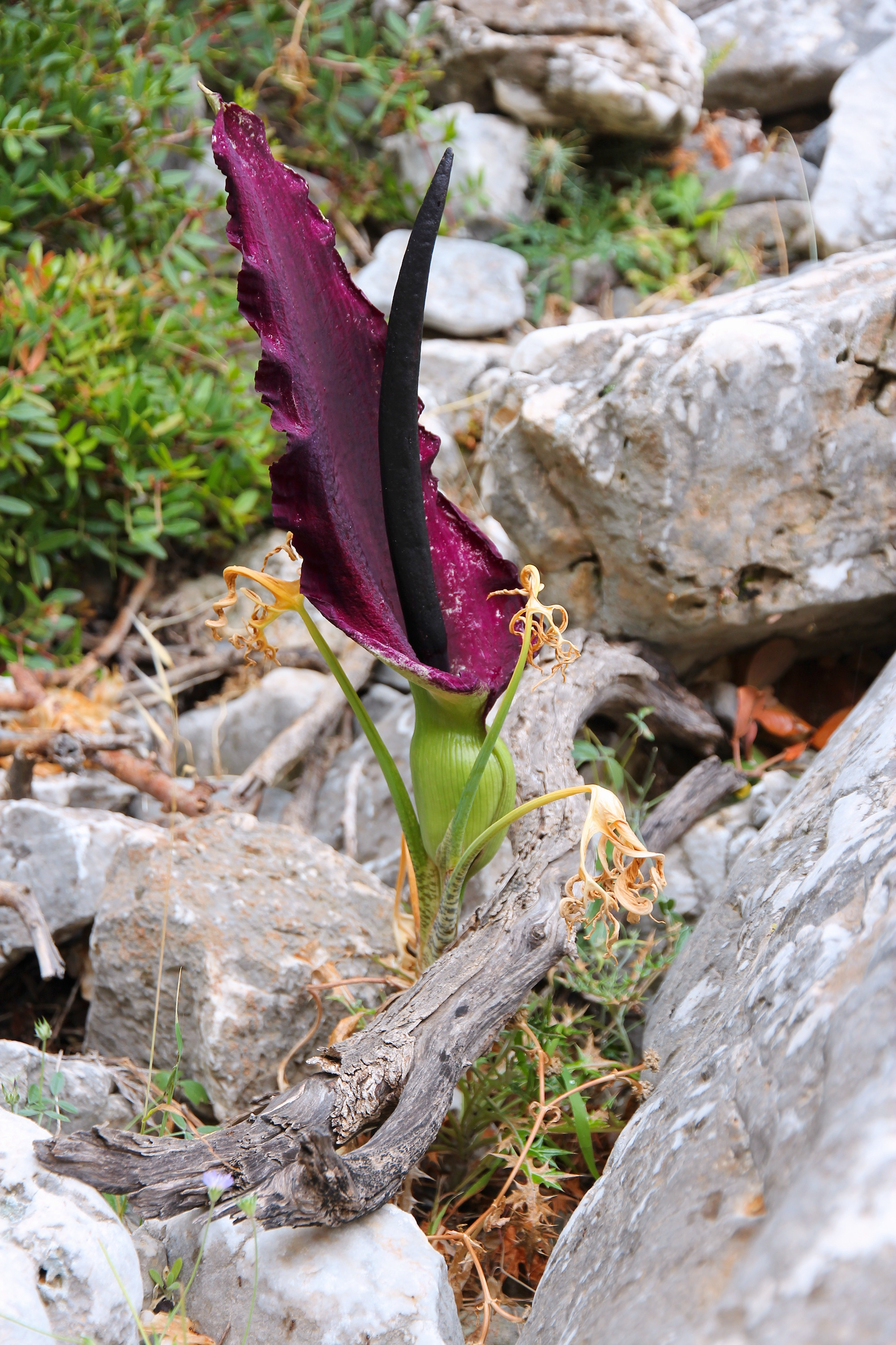 Dragon Arum or Snake Lily (Dracunculus vulgaris) with wilted leaves at Akrotiri peninsula, Crete, Greece.